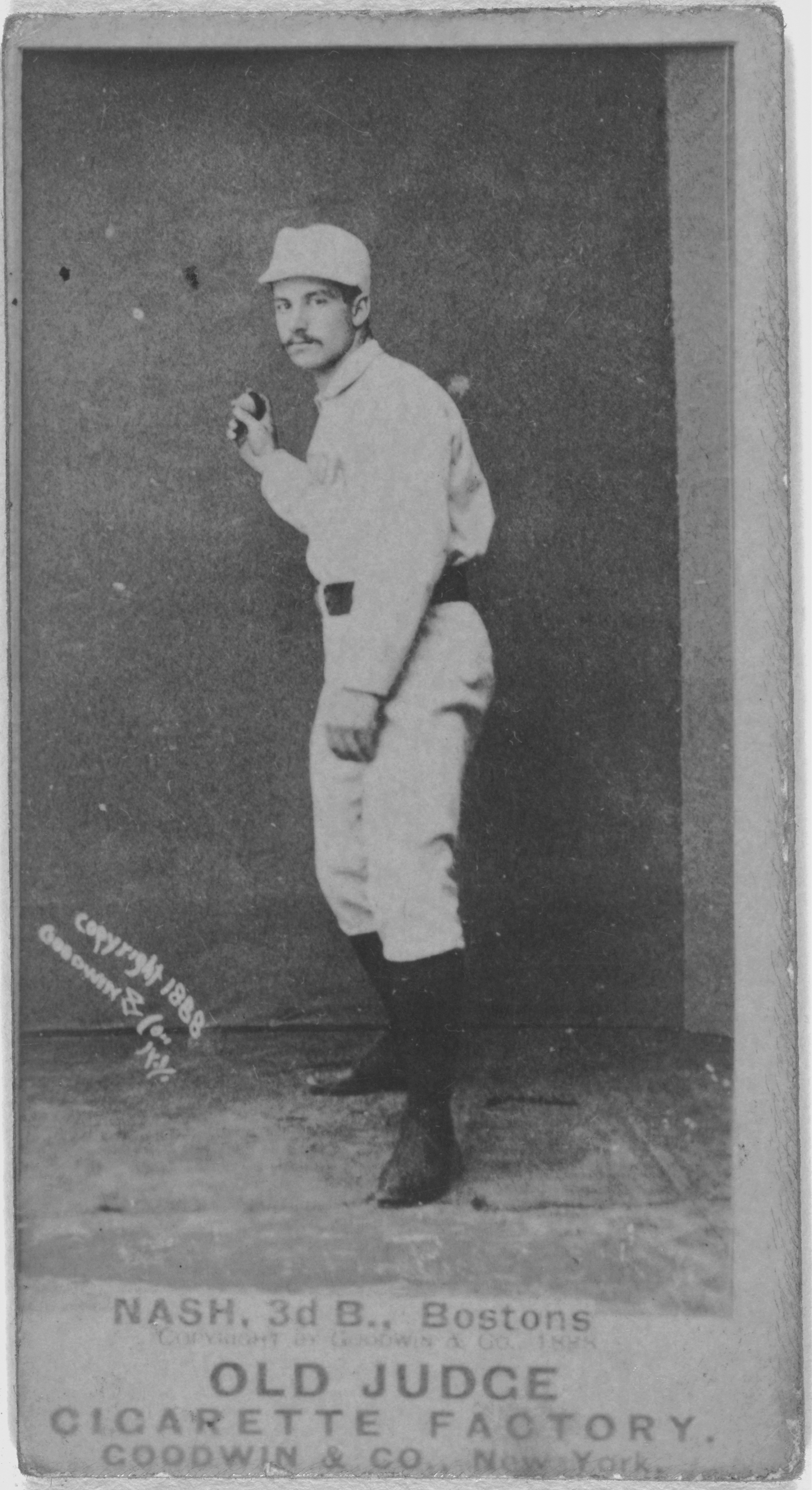 Major League Baseball player Billy Nash of the Boston Beaneaters.